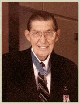 Van T. Barfoot wearing a suit and his Medal of Honor